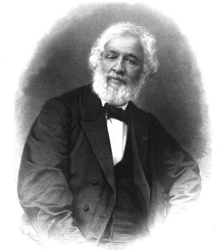 Charles-François Lebœuf, also called Nanteuil (1792–1865), French sculptor